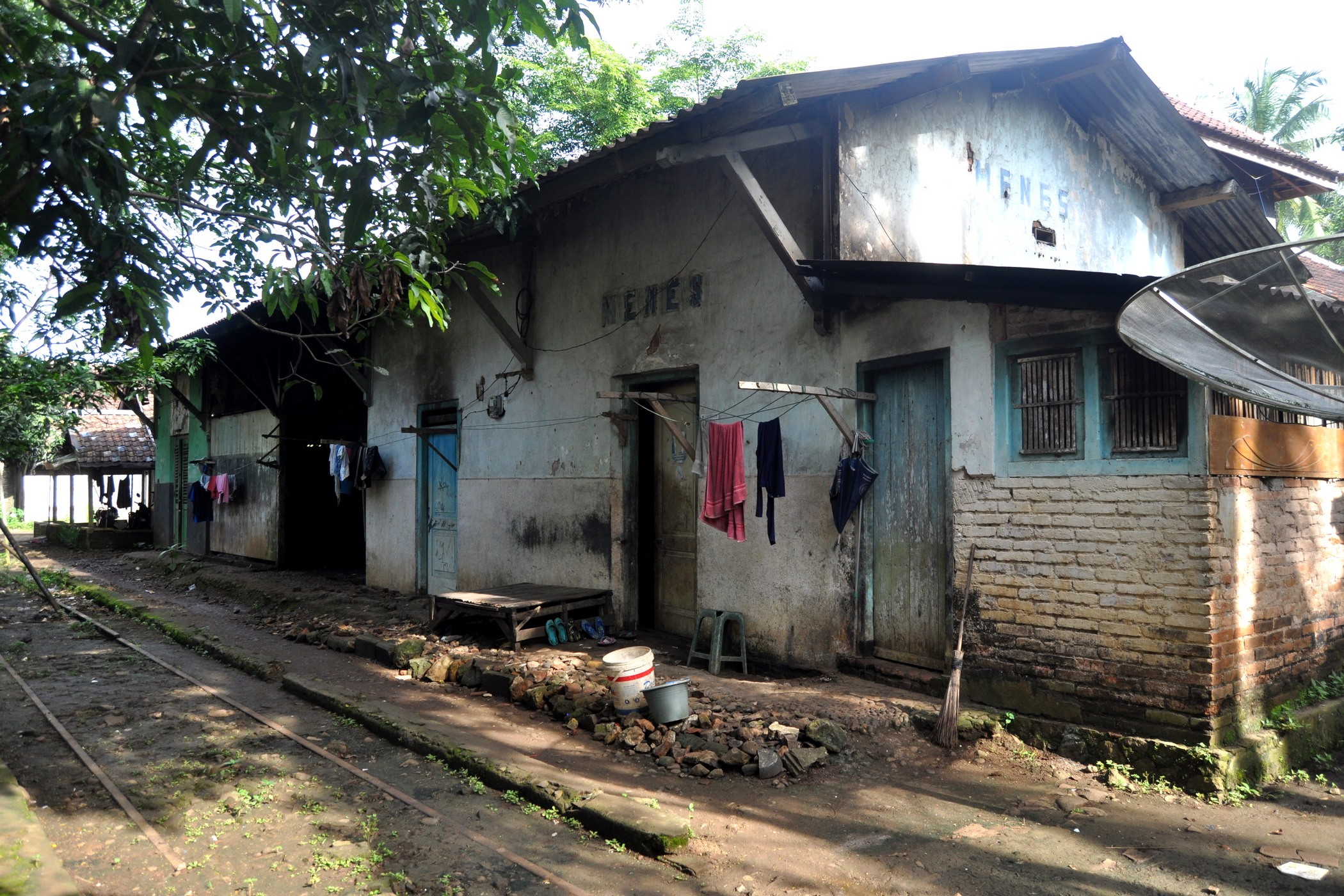 Ex Menes train station, closed since 1982, in Pandeglang, Province of Banten (Bantam), Indonesia. Main building; now becoming a house.